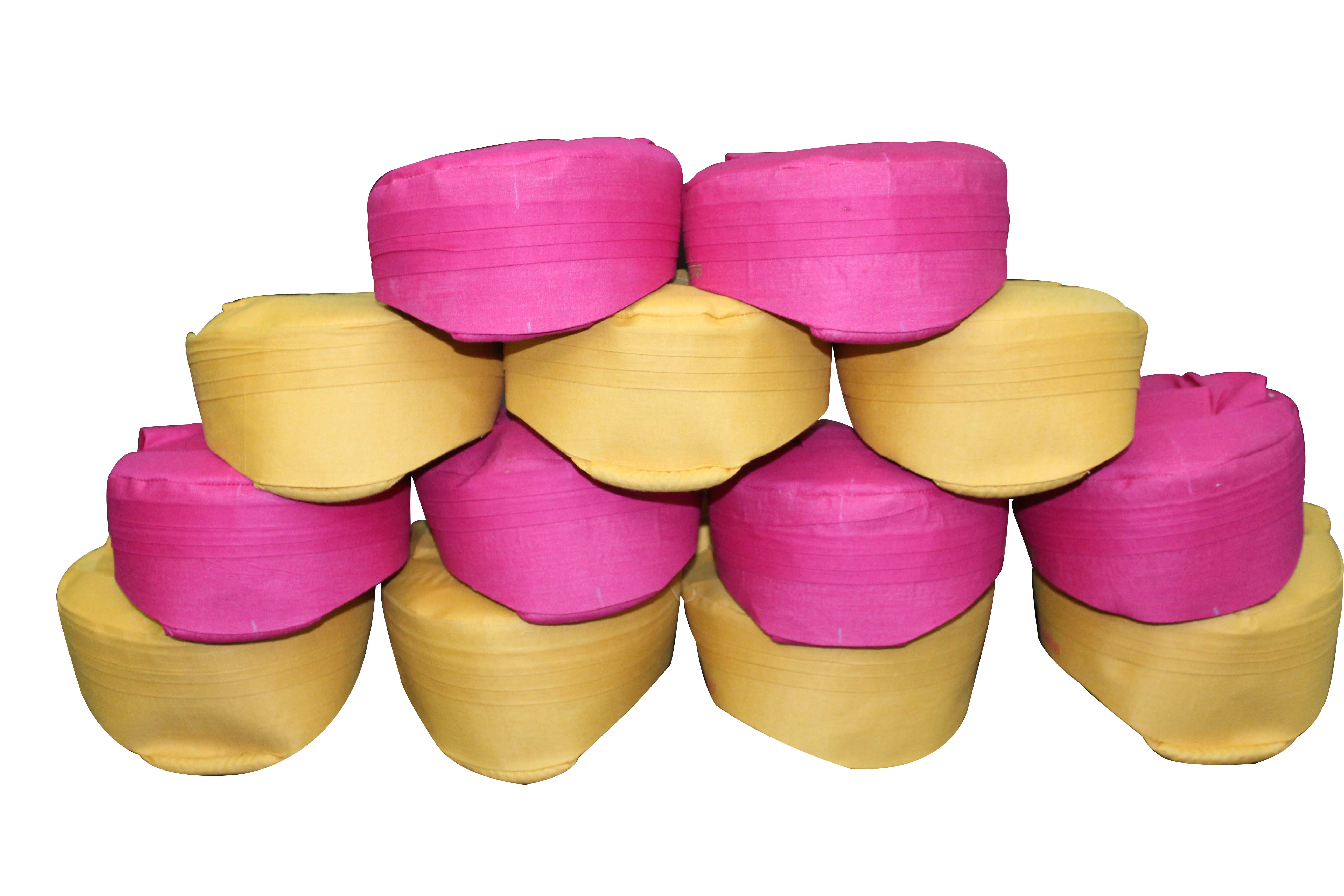 Paag of Mithilalok